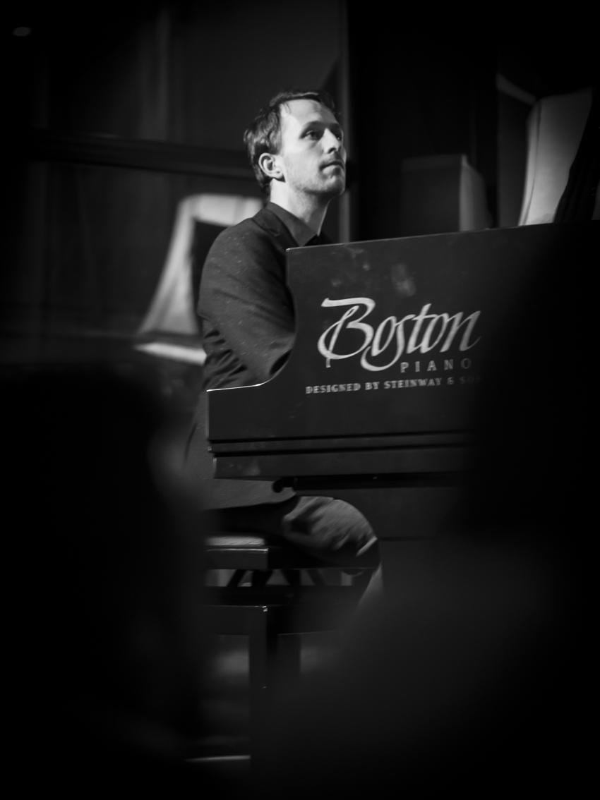 Johannes von Ballestrem in the ZigZag Jazz Club Berlin during a concert with "The Tin Aleey Quartett"